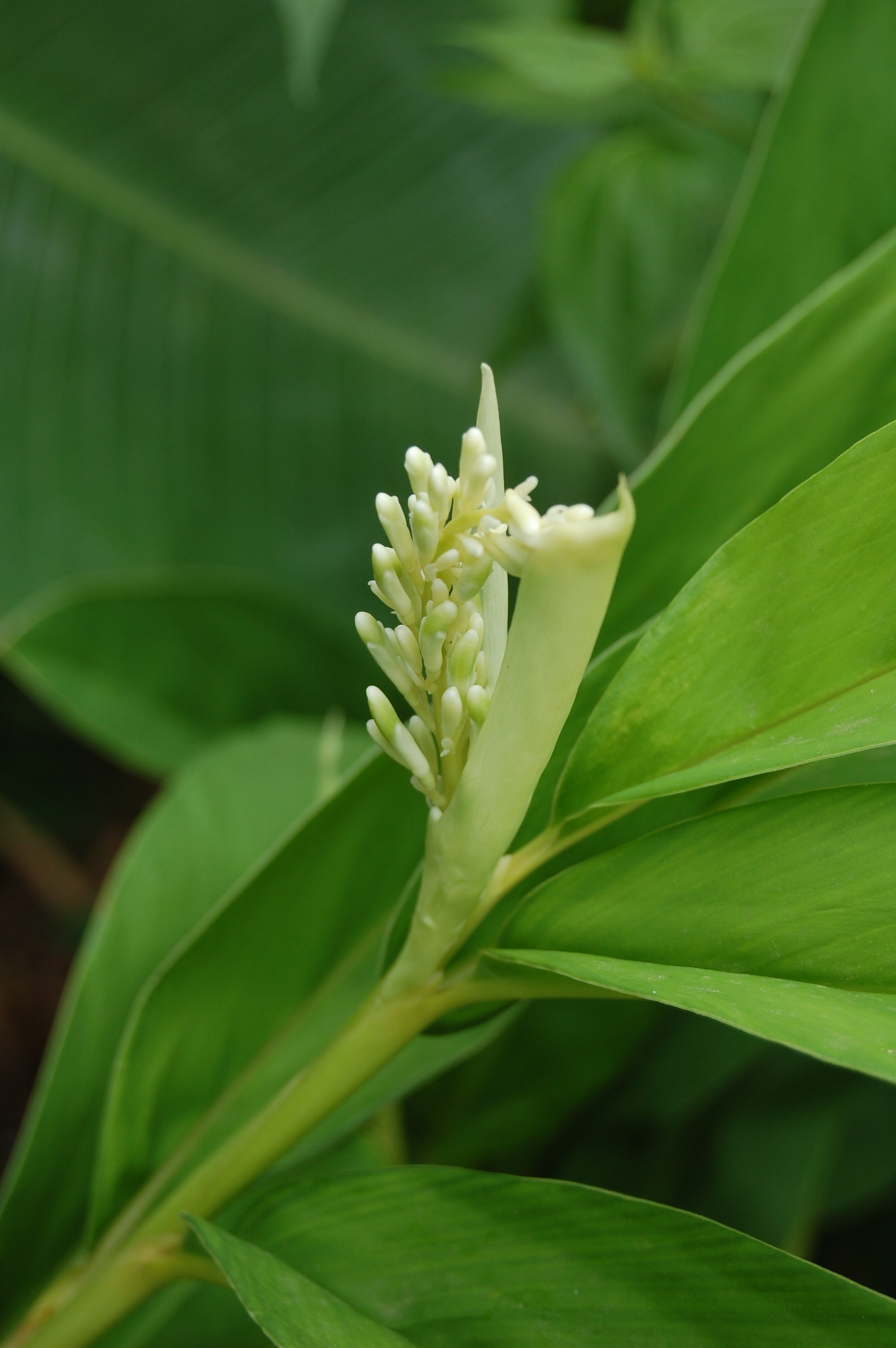 Alpinia galanga opening